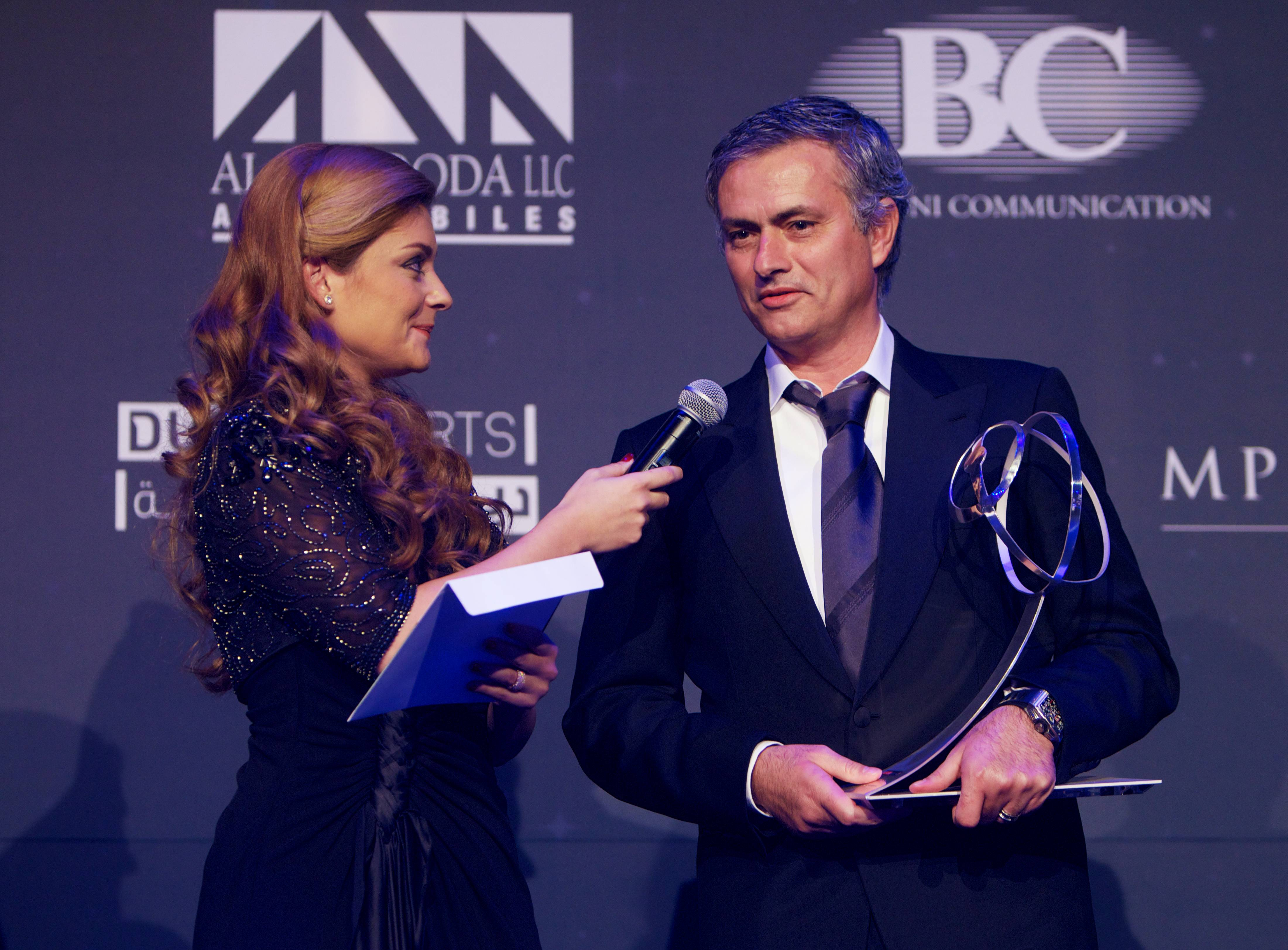 GlobeSoccer Awards 2012 - Jose Mourinho receive the "Best coach of the year award"